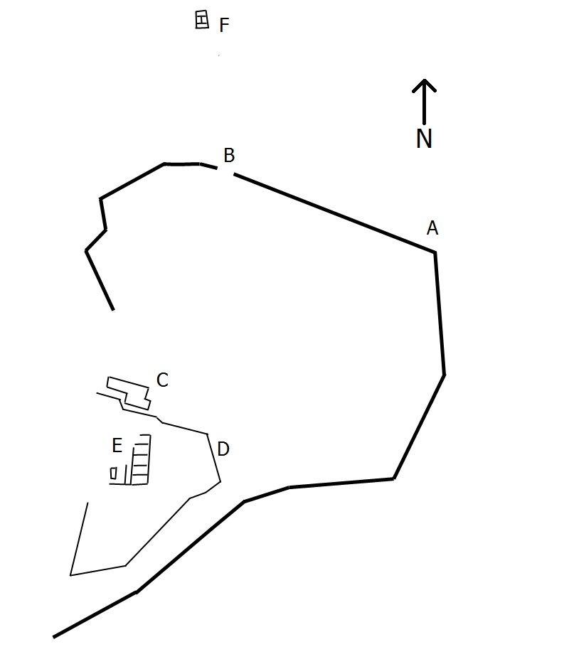 Map of minoan peak sanctuary on Psili Korfi, Mount Juktas, Crete: A = enclosing wall B = gate C = transmitting station D = fence around archaelogical site E = sanctuary F = building at Alonaki